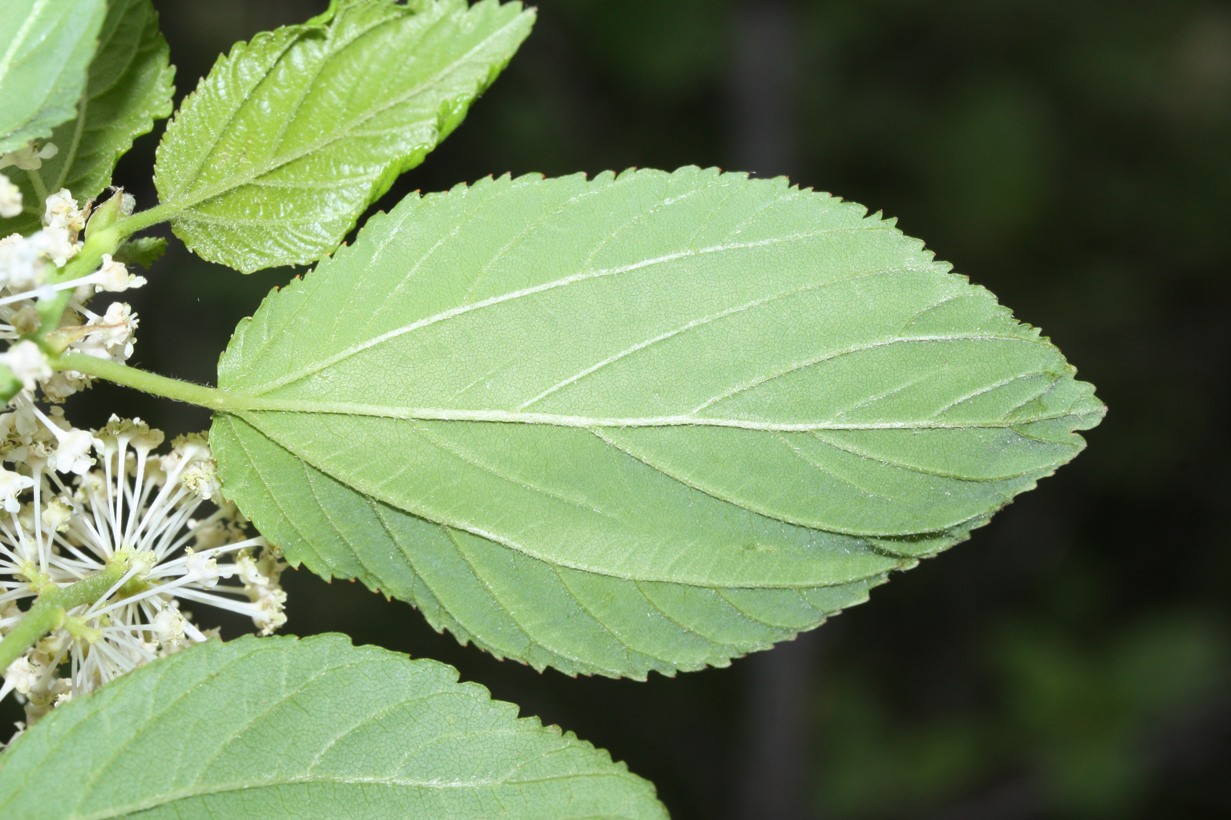 Redstem Ceanothus, Oregon Teatree